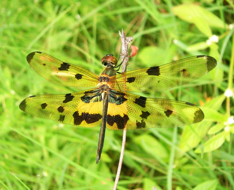 Rhyothemis variegata, Male Picturewing dragonfly at Hebbal, Bangalore, India